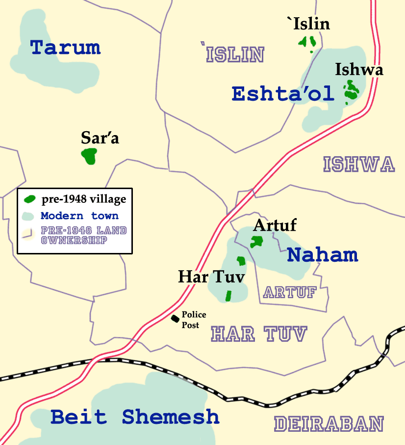 Region of Artuf/Har Tuv from the 1940s until today.